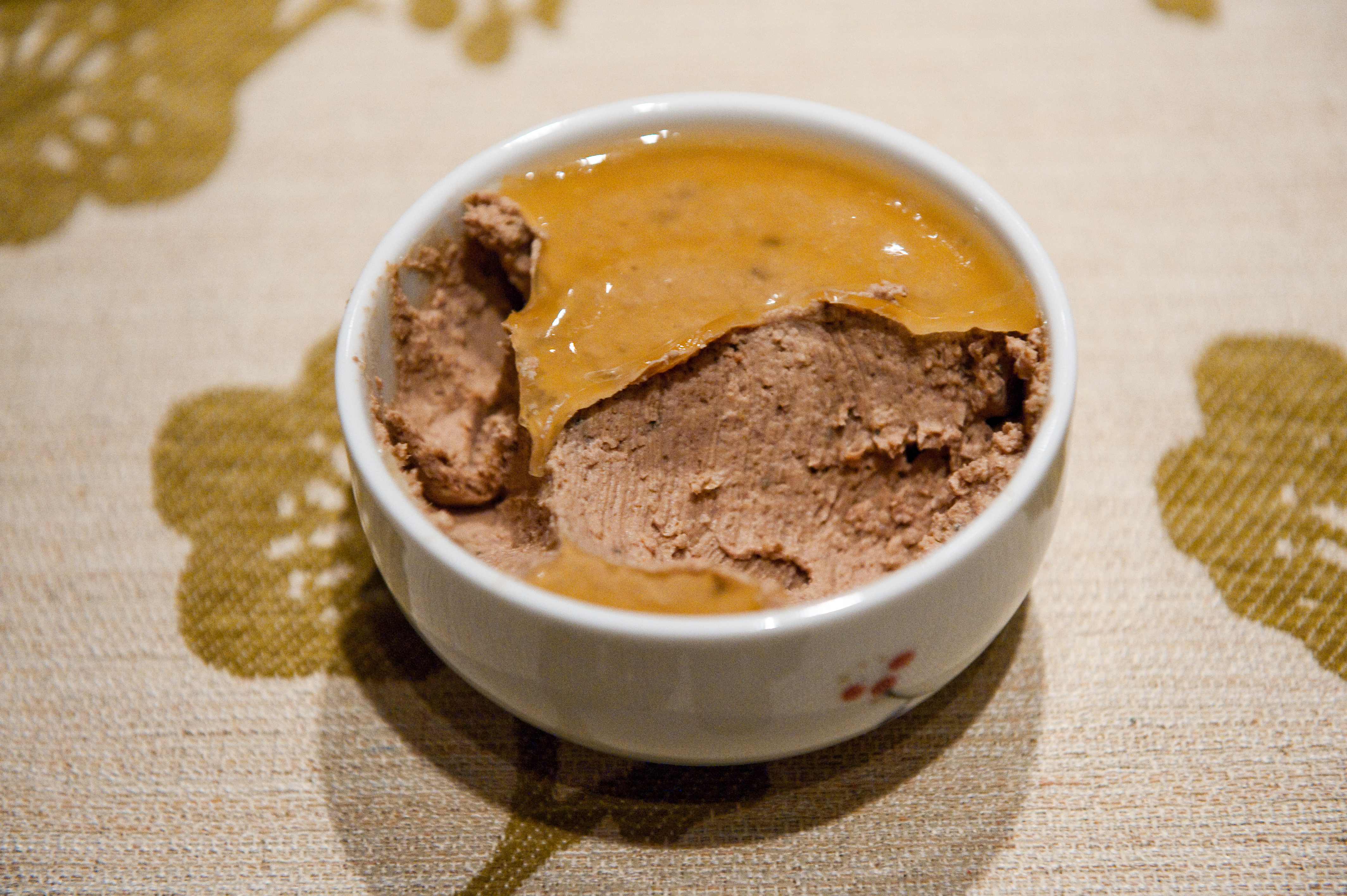 JOH_4926 Mousse of duck